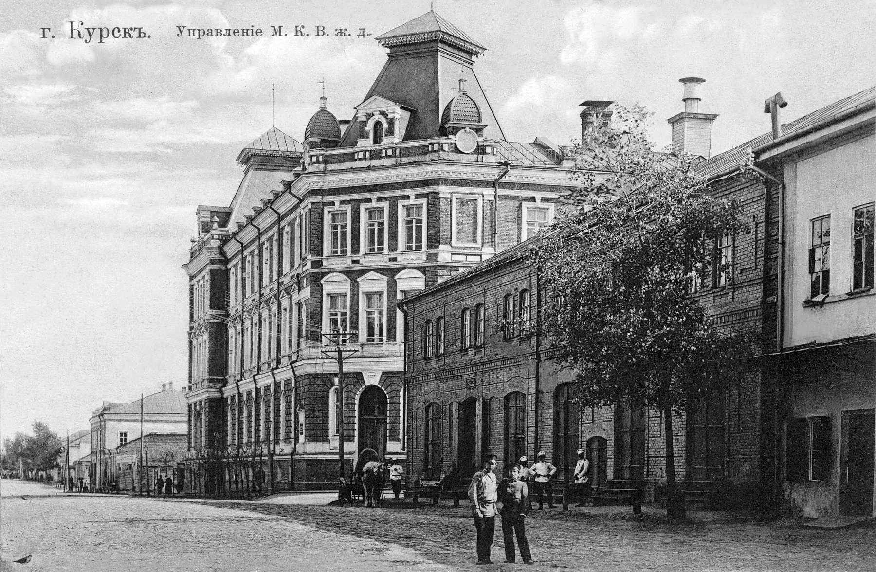 Building of Moscow-Kiev-Voronezh Railway Department in Kursk in the begining of XX century.